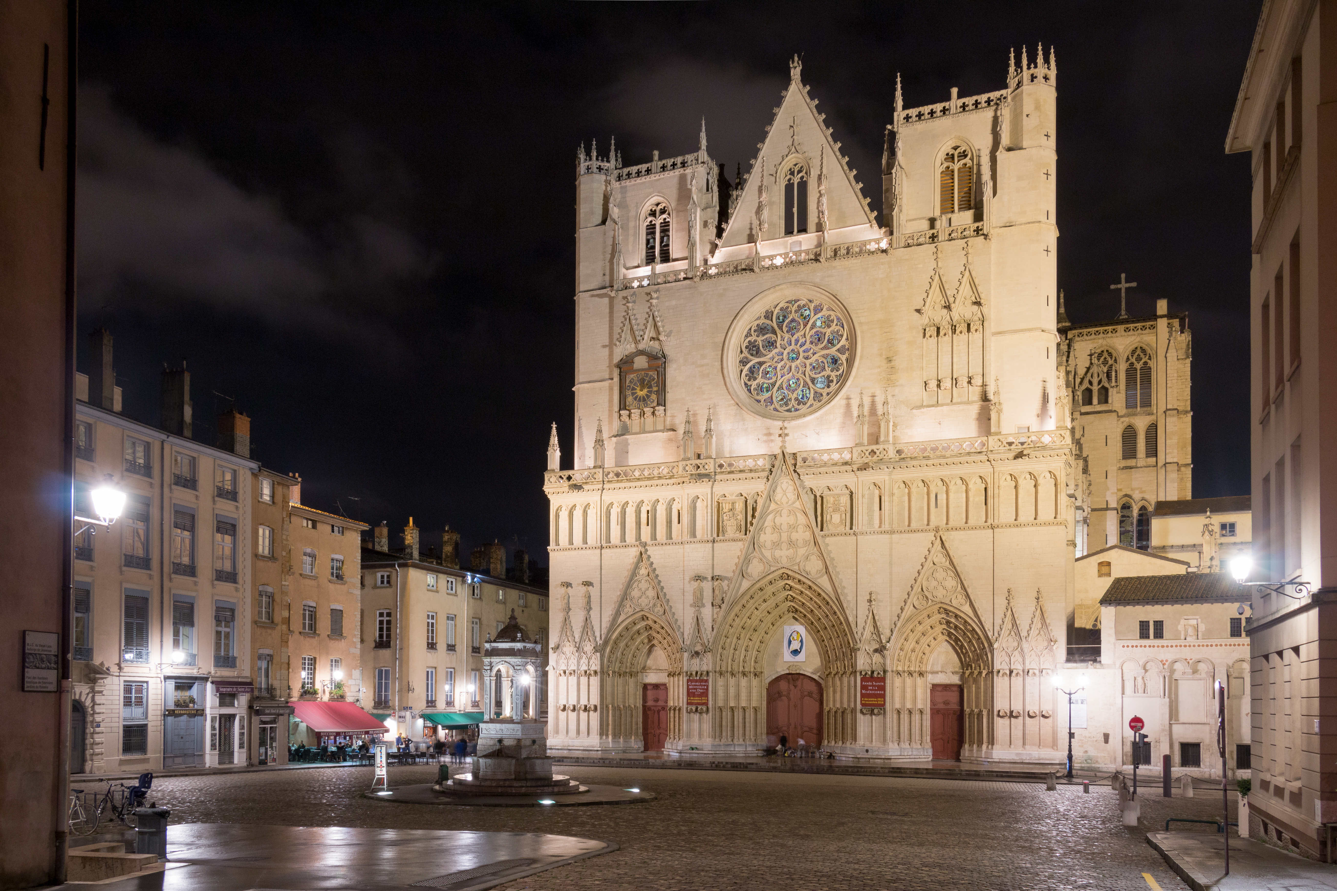 Lyon Cathedral